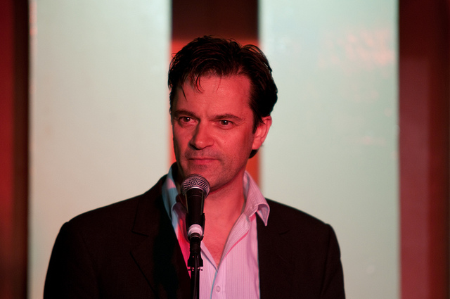 Tony Gardner on stage at 100 Club